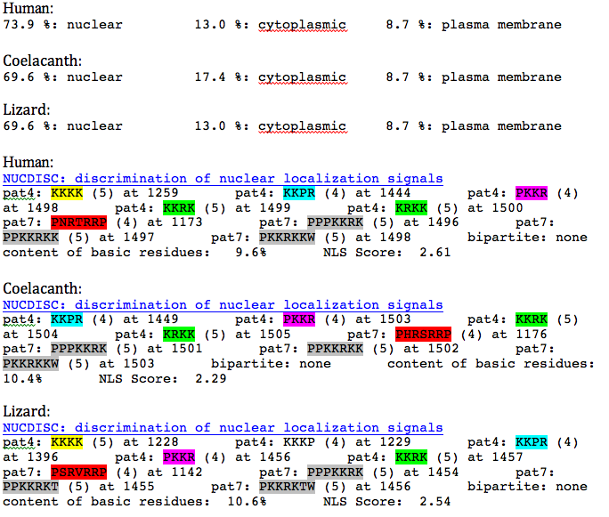 QSER1 protein was analyzed using pSORT II in human, lizard, and coelacanth. Nuclear localization is predicted in all organisms. Nuclear localization signals and locations are noted on bottom half. Colors correspond to conserved signals between organisms.